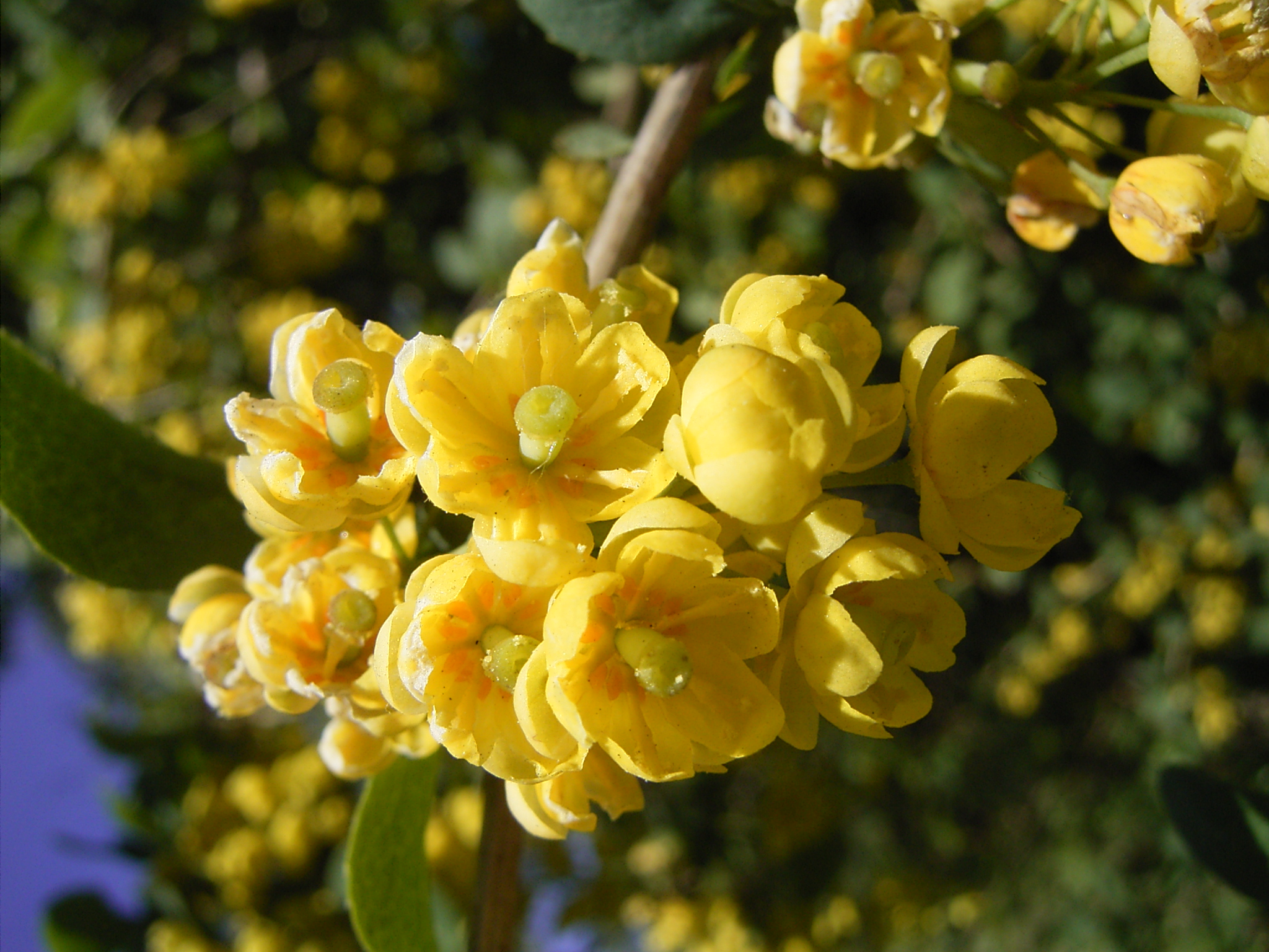 This photo shows flowers of berberis vulgaris